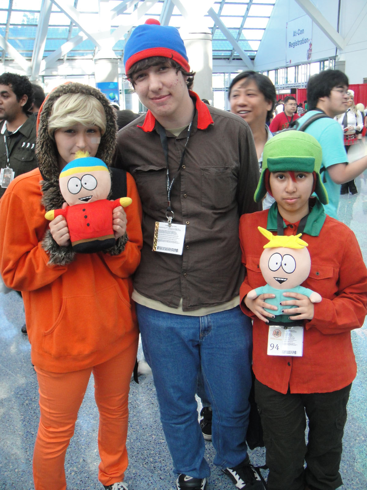 Anime Expo 2011 - the South Park kids